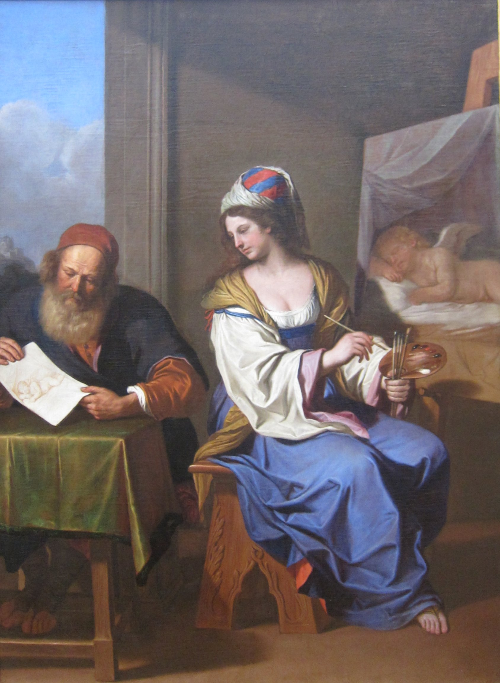 Disegno and Colore (Drawing and Color), oil on canvas painting by Guercino, c. 1640, Getty Center